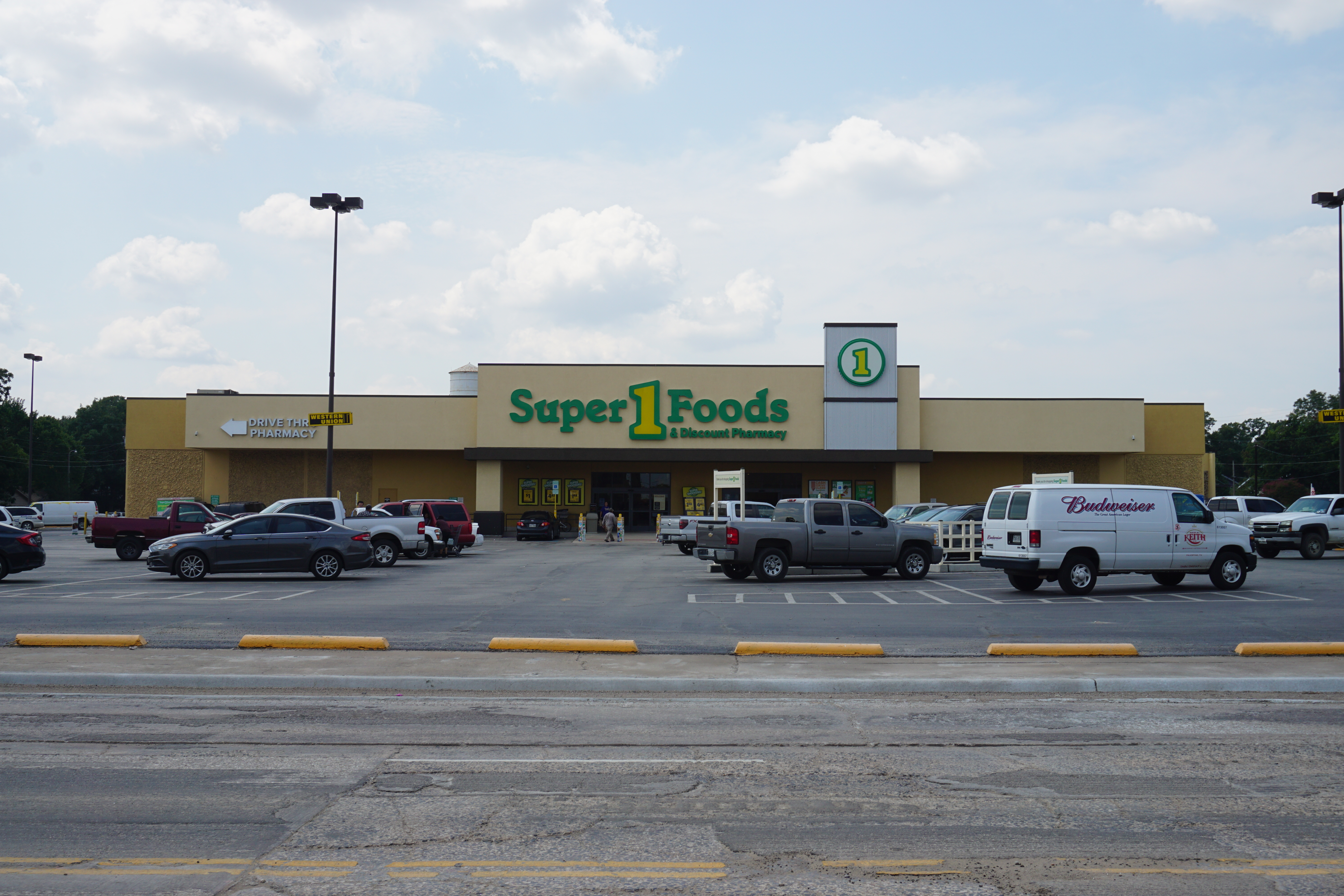 Super 1 Foods in Corsicana, Texas (United States).